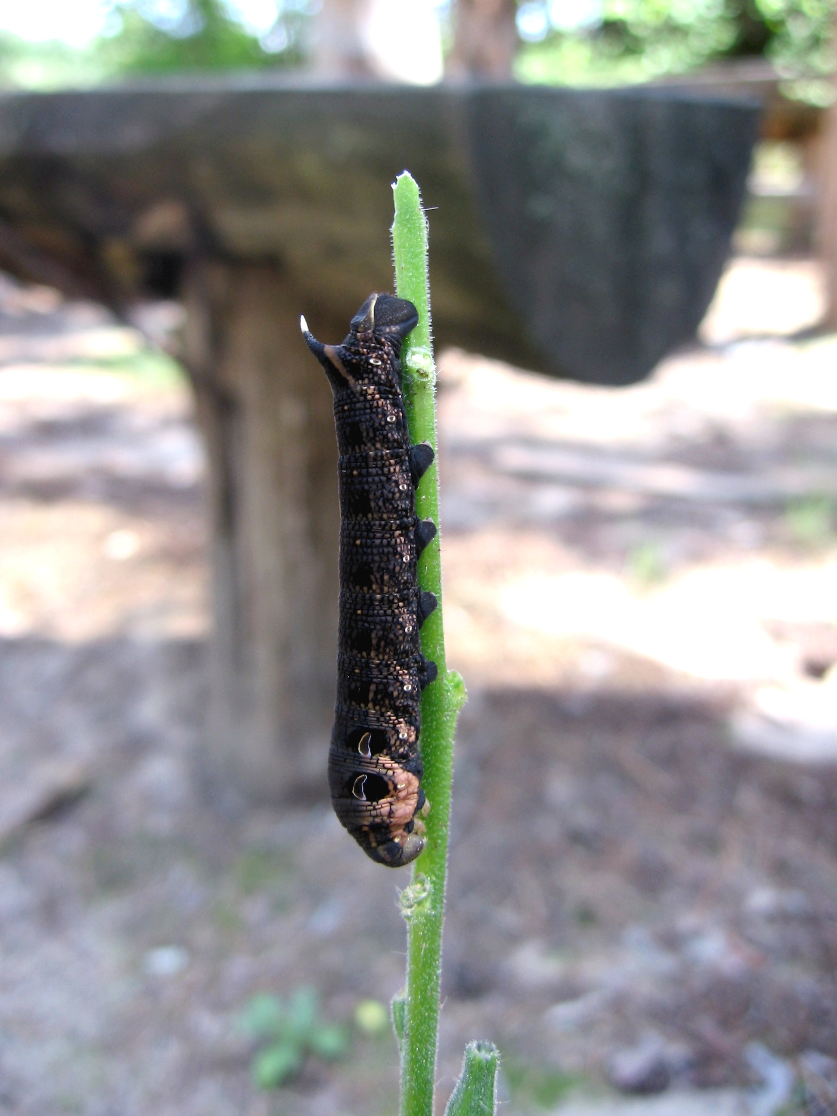 A caterpilar of Deilephila elpenor. Photo by Margarita Kudelienė